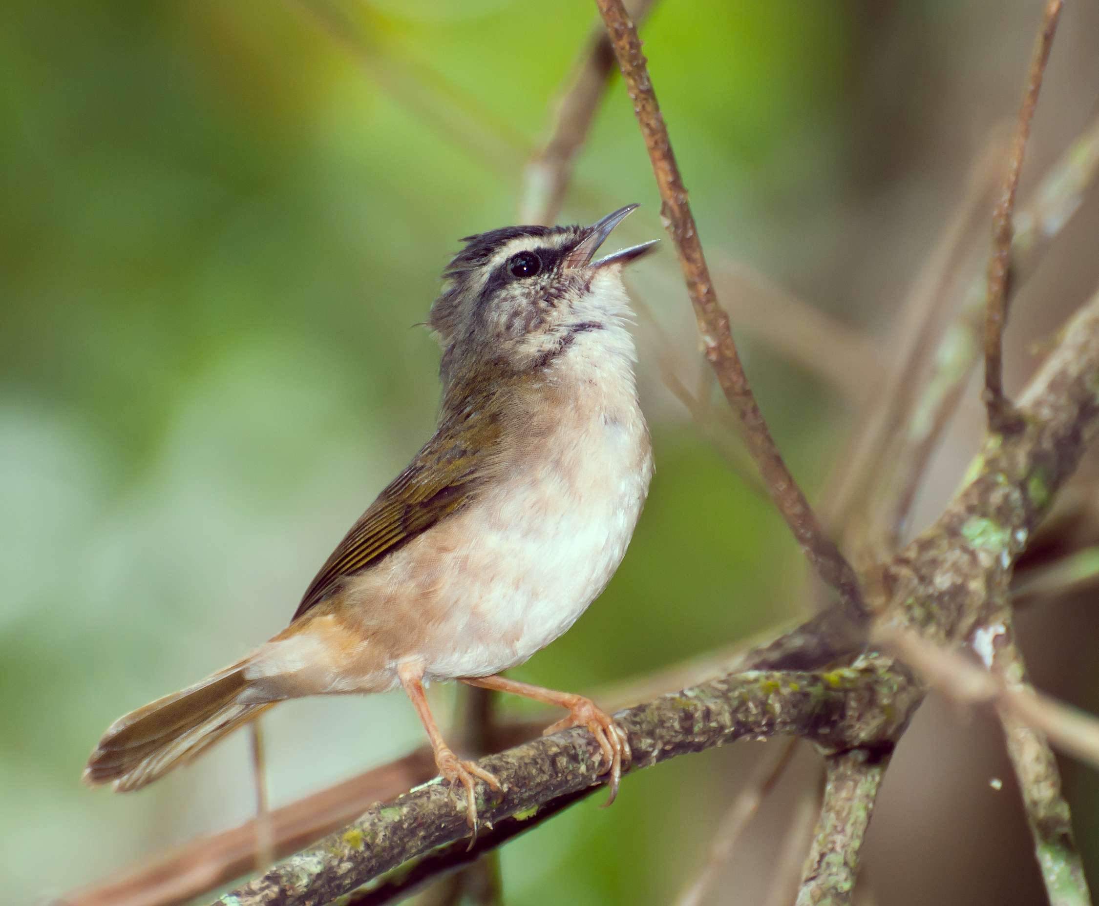 A Riverbank Warbler in Vale do Ribeira, Registro, São Paulo, Brazil.